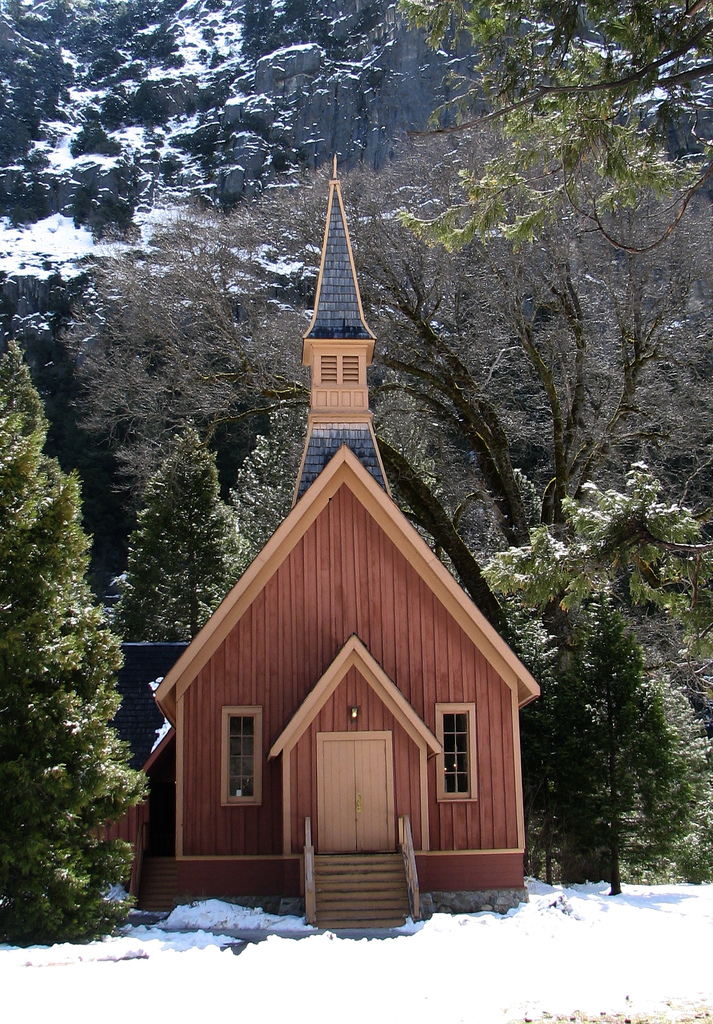 Yosemite chapel, California, USA